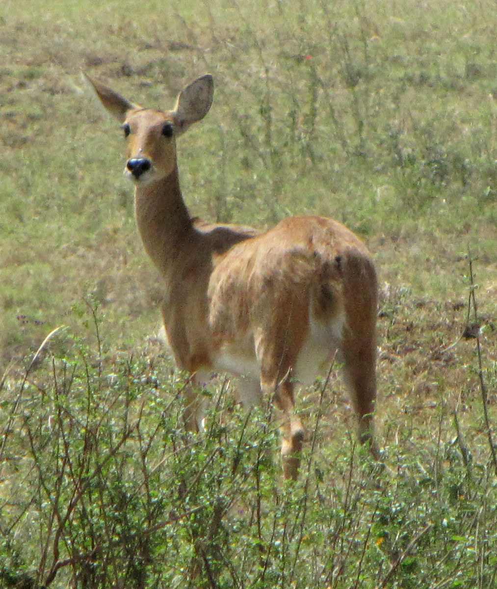 Bohor Reedbuck (Redunca redunca), female, Serengeti, Tanzania